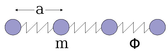 A diagram showing atoms connected by spring-like forces